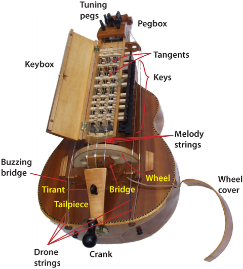 Major parts of a French-style hurdy gurdy